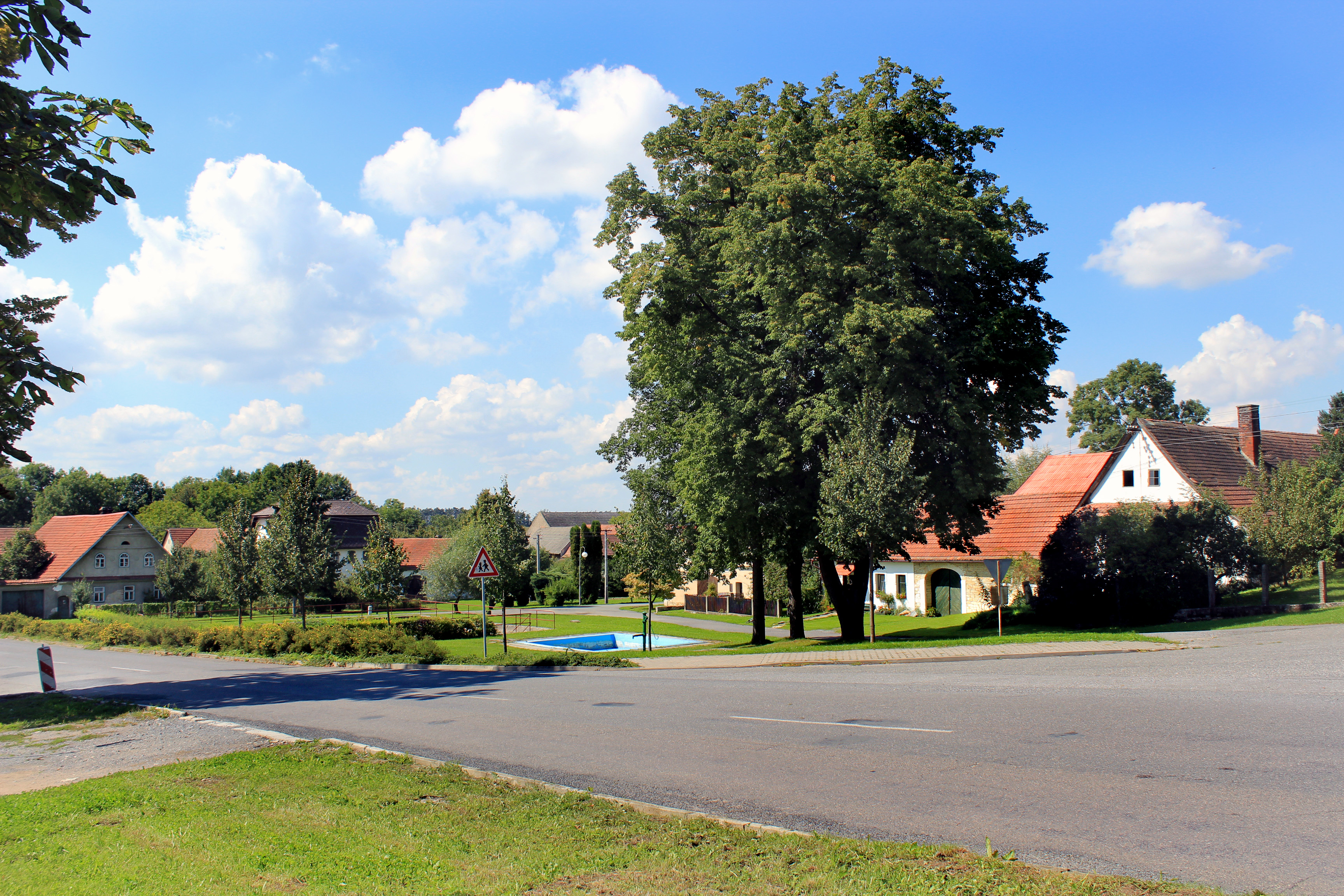 Common in Chotovice, Czech Republic.